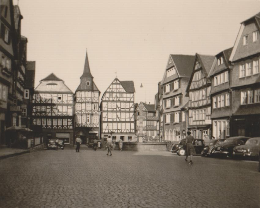 Market place (1954) at Fritzlar